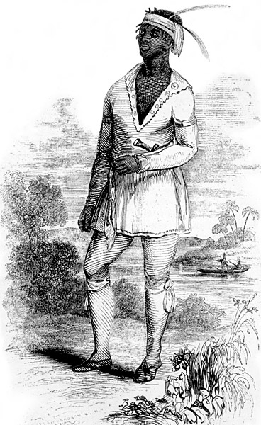 John Horse, a Black Seminole leader, from N. Orr's engraving published in 1848 in The Origin, Progress, and Conclusion of the Florida War by John T. Sprague.